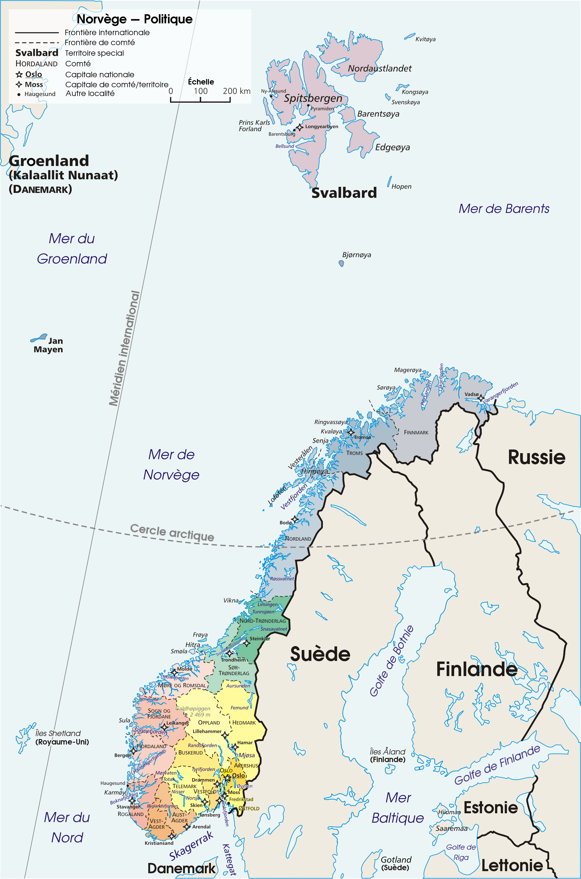 Political map of Norway in french